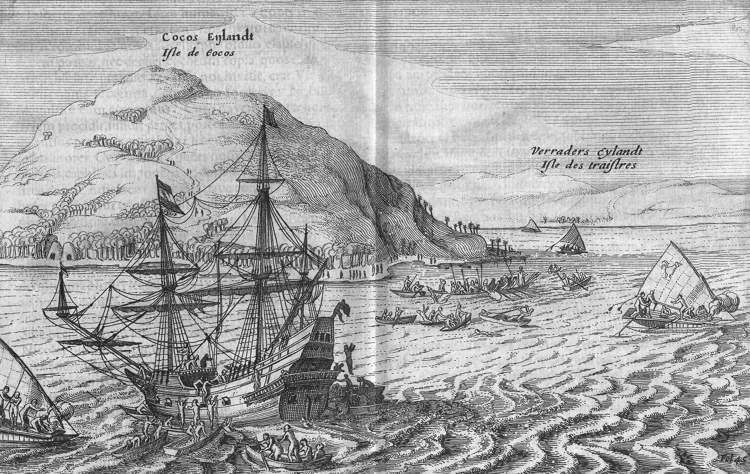 The print shows inhabitants of Verraders Eiland (Traitors' Island) pelting the Eendracht with stones, because they are impressed with the hardness of the wood of which the vessel is made. The Dutch felt threatened and responded with musket fire. The island subsequently became known as 'Verraders Eiland'. During the days before this incident contact between the two sides had progressed relatively well. The expedition undertaken by Schouten and Le Maire was equipped in 1615 by Le Maire's father, for the Australische Compagnie. This company attempted to circumvent the VOC's patent by finding an alternative route to Indonesia. Schouten and Le Maire succeeded in their quest by sailing around Vuurland instead of through the Magellan Straits. But despite their discovery of a new route, their expedition was not very successful. Once they reached Batavia their story was not believed and their remaining vessel, the Eendracht, was confiscated along with its cargo. Cocos Island is now known as Tafahi, while Traitors' Island is called Niuatoputapu. Both islands are part of the kingdom of Tonga.